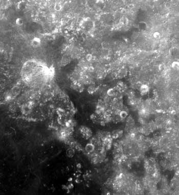 Mare Anguis is in the middle of the picture. It is located on the near side of the moon (the side facing the Earth), and is about 150 miles in diameter. Located within the Crisium basin, Mare Anguis is a part of the Nectarian System, meaning that it was formed during the Nectarian time period (according to Wilhelms, 1987 (Plate 9A) - Upper Imbrian epoch). Like most maria, the surface of Mare Anguis is dark, indicating that it has been filled with volcanic basalt. The crater at the left center is Eimmart, at the northwestern tip of Mare Anguis. The dark patch in the lower left corner is the northeastern edge of Mare Crisium.